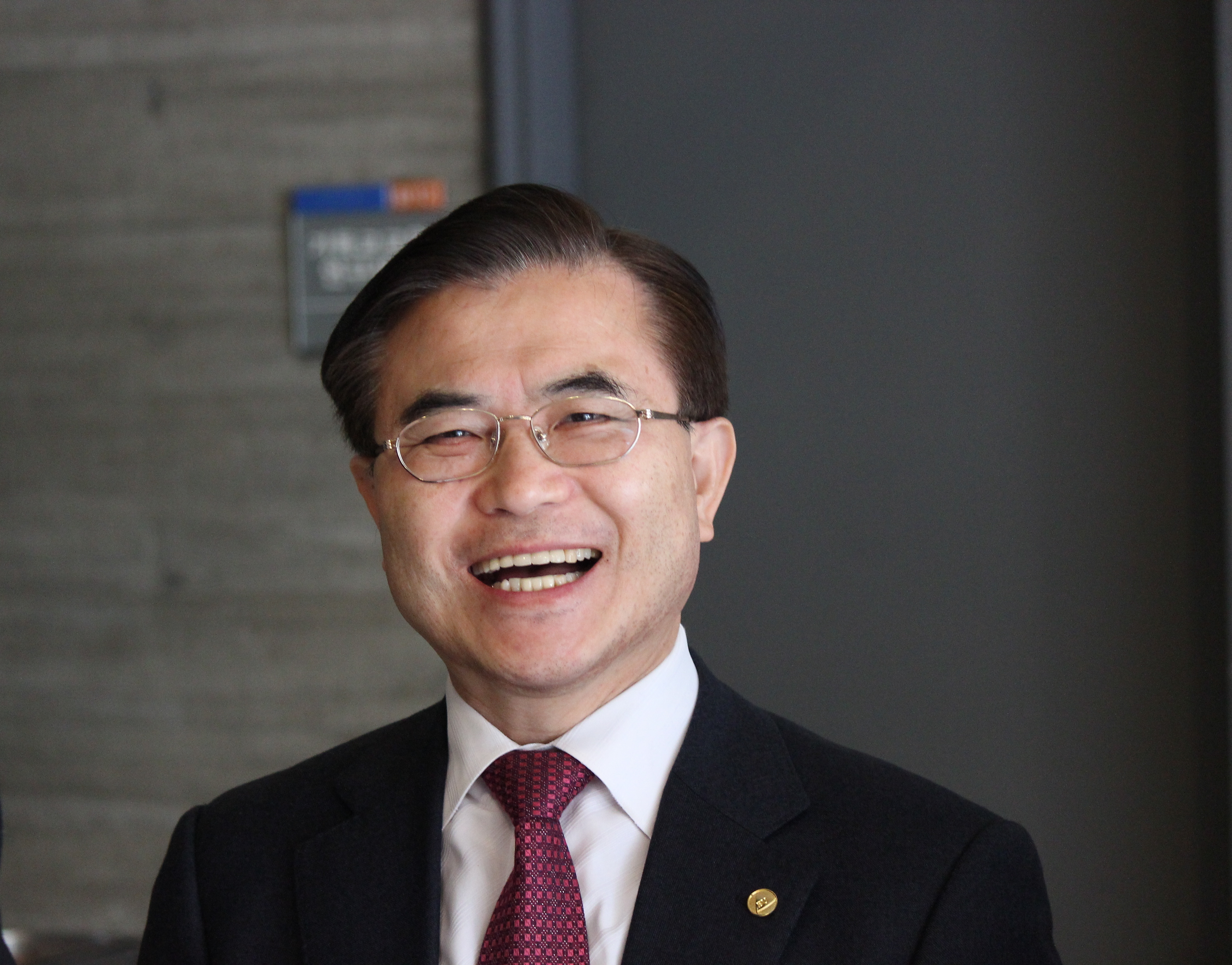 Professor Yune-Tae Kim smiling at the conference of Systematic Theology Division of Korea Evangelical Society in the AnYang University in 2017